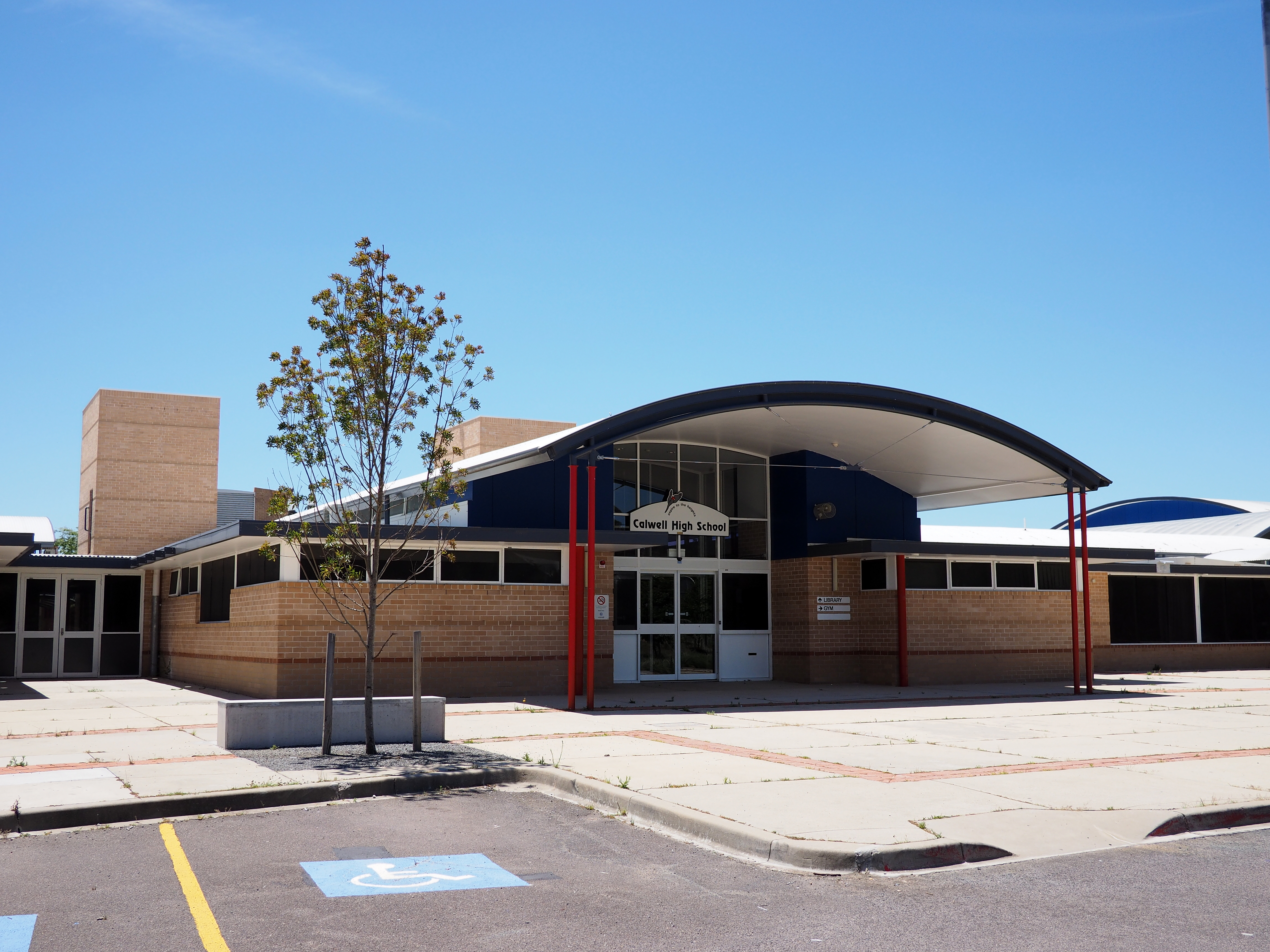 The entrance to Calwell High School